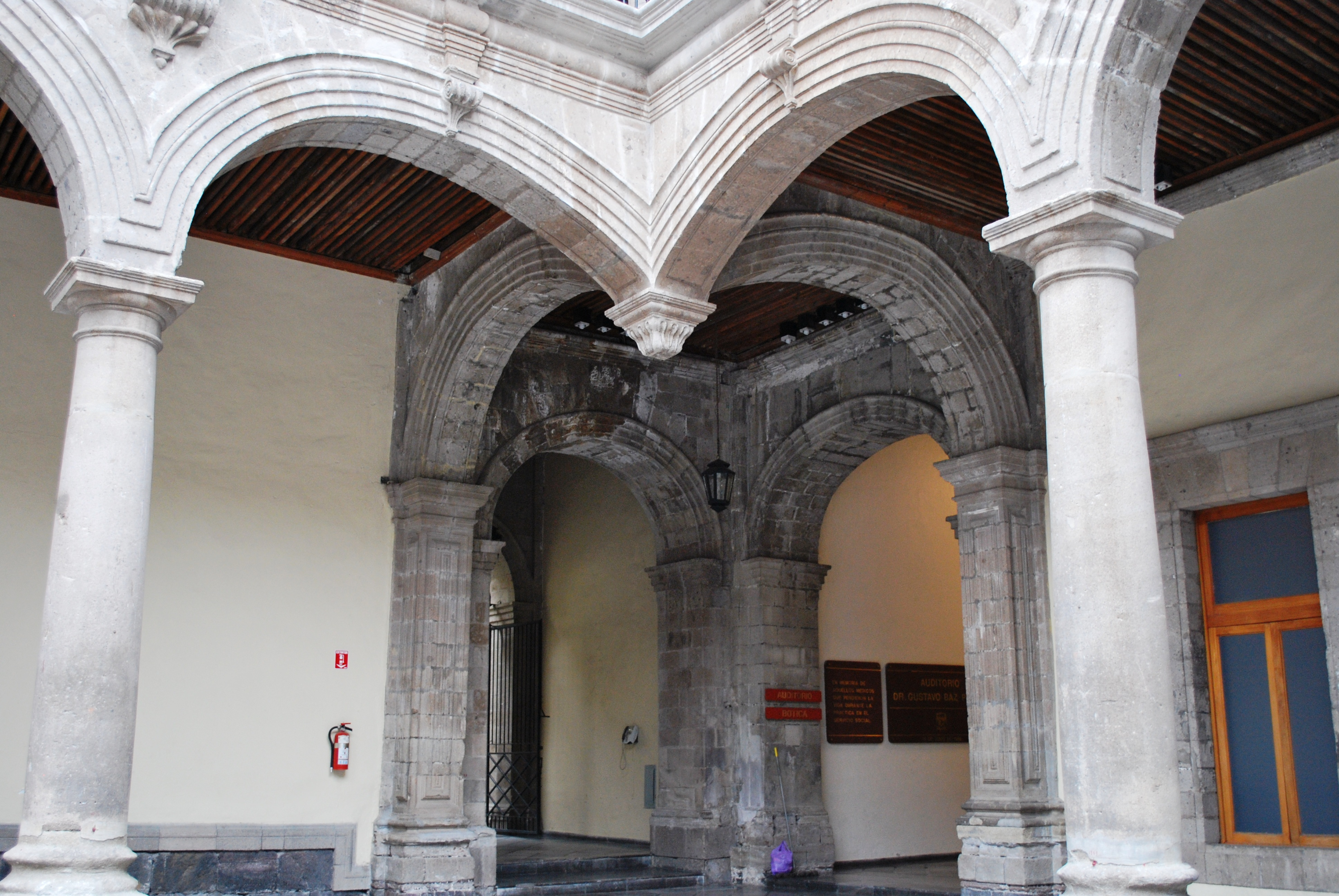 One of the four "hanging arches" at the Palace of the Inquisition-Museum of Mexican Medicine located in the historic center of Mexico City